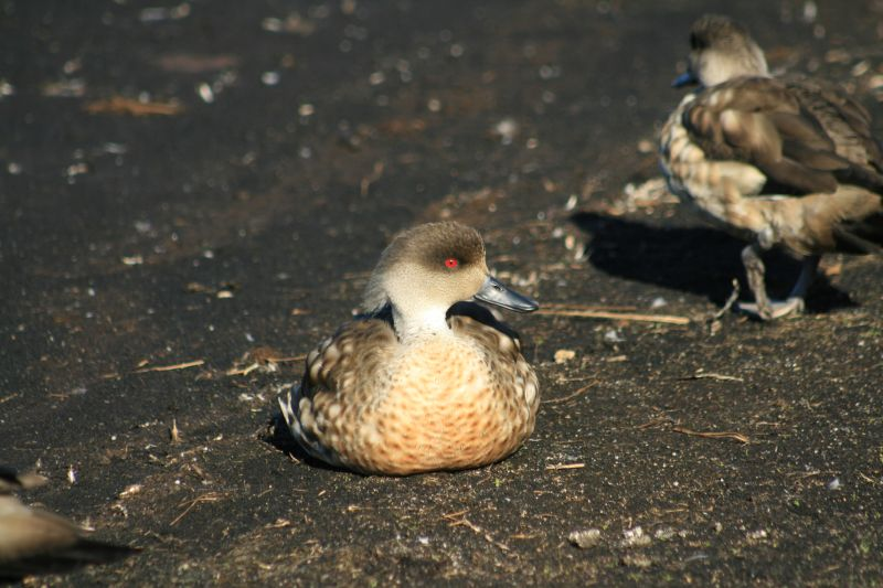 Patagonian Crested Duck (Lophonetta specularioides) in Sealion Island, Falkland Islands